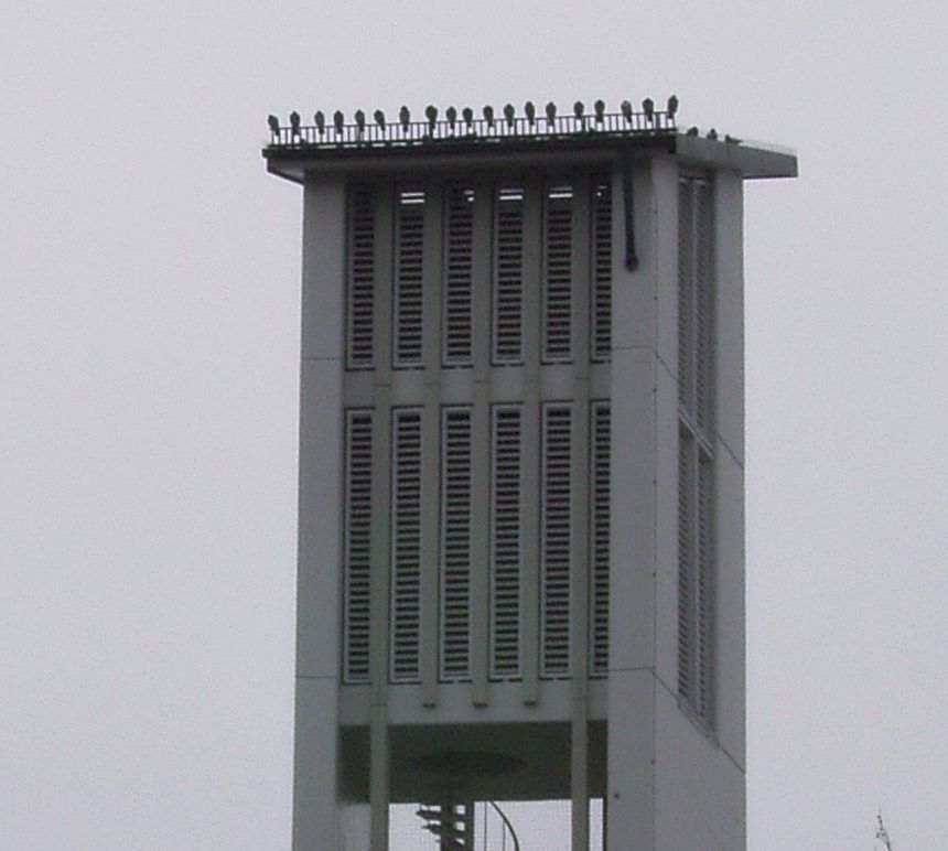 Individual distance: pigeons on a steeple